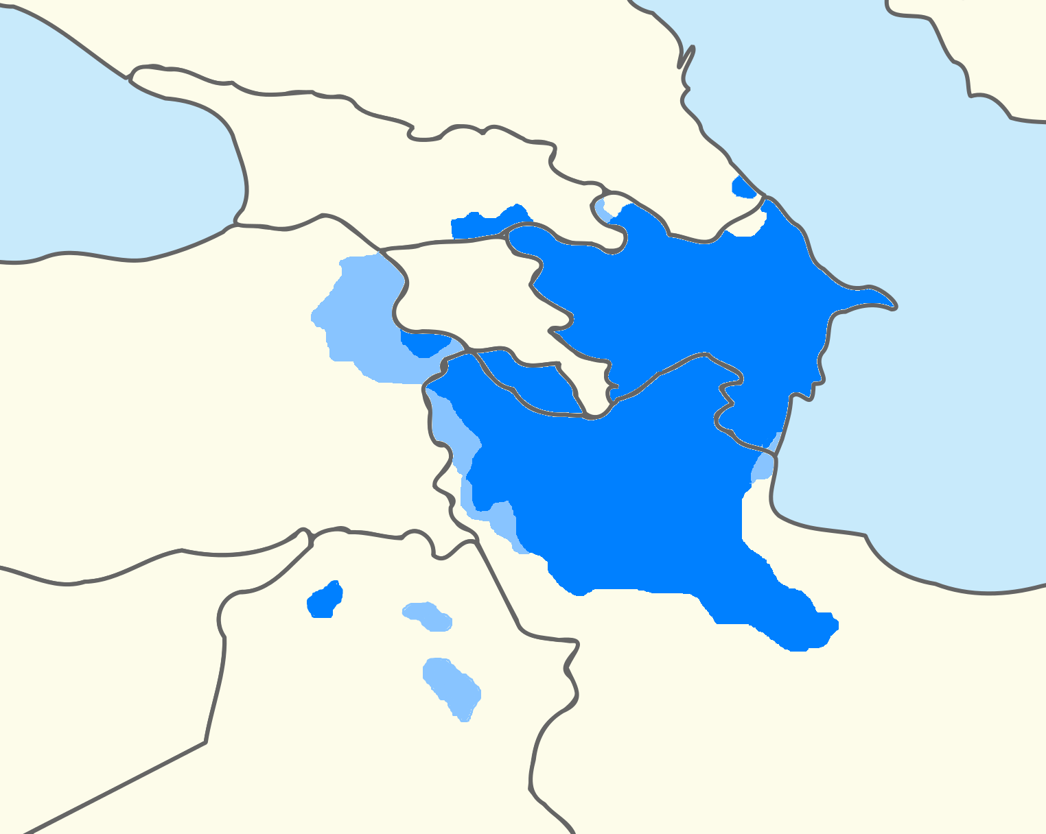 Map of Azerbaijani speakers